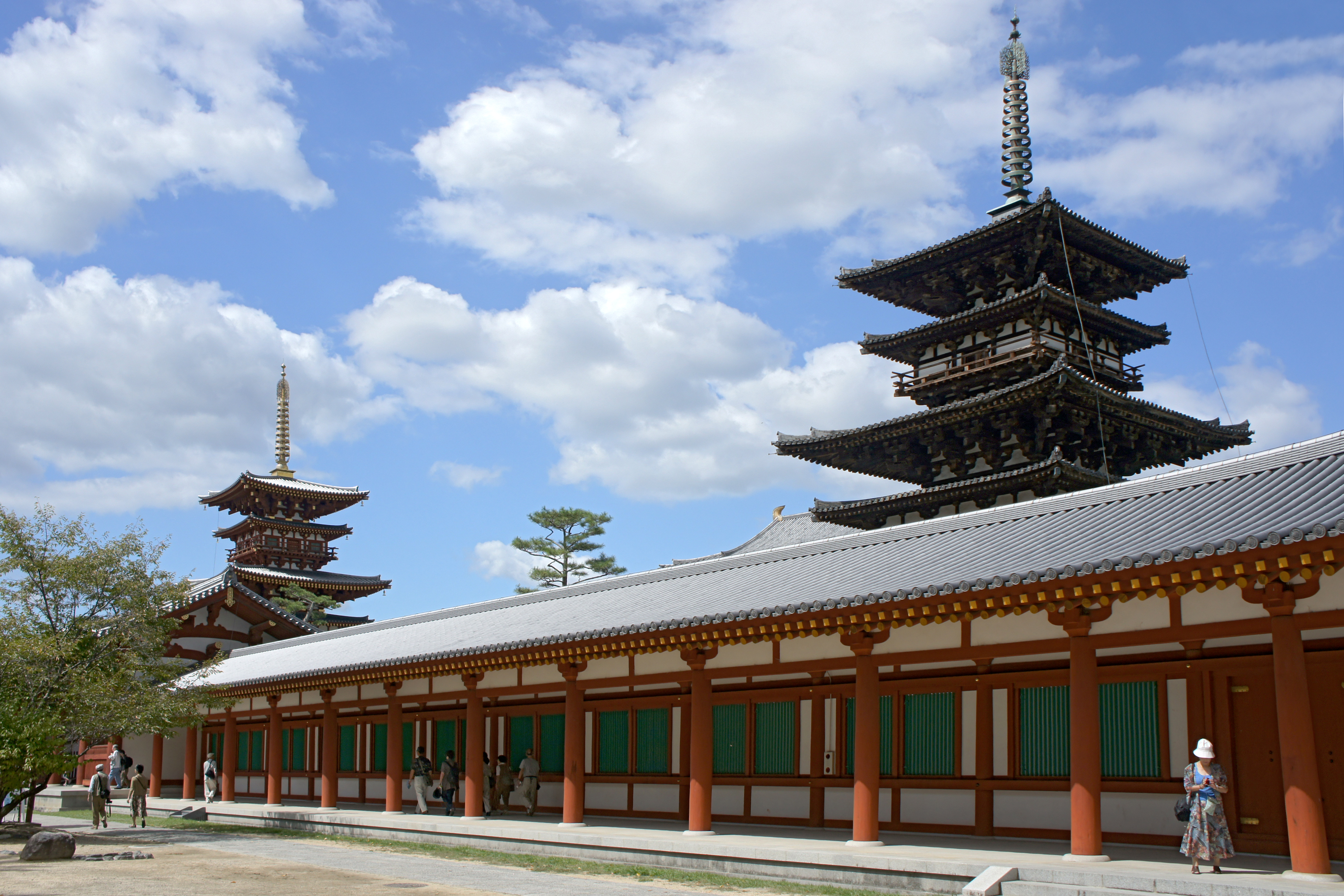 Yakushi-ji is a Buddhist temple in Nara, Nara prefecture, Japan. It was registered as part of the UNESCO World Heritage Site "Historic Monuments of Ancient Nara".